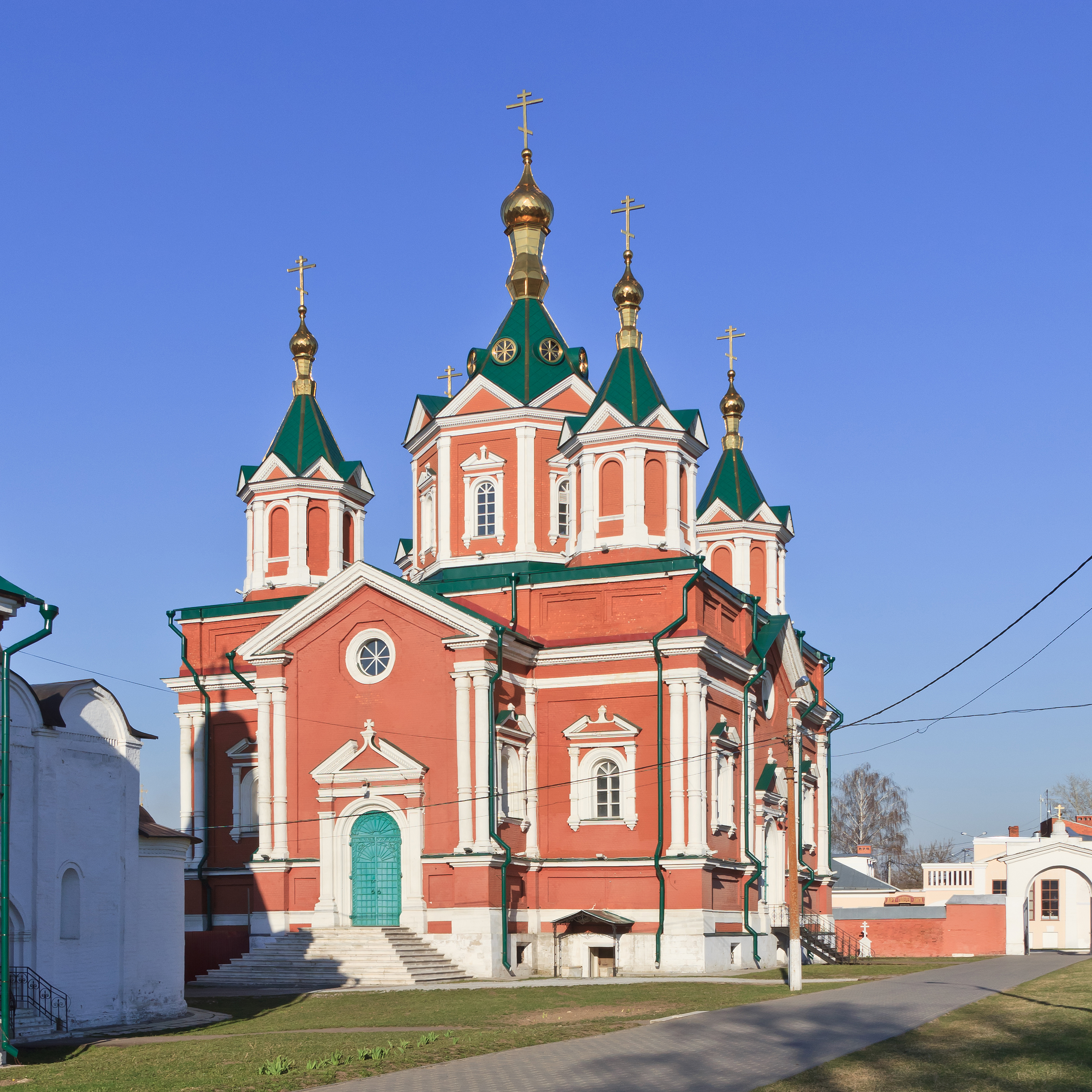 Cathedral of the Exaltation of the Cross at Uspensky Brusensky Convent in the Kolomna Kremlin. Kolomna, Moscow Oblast, Russia.